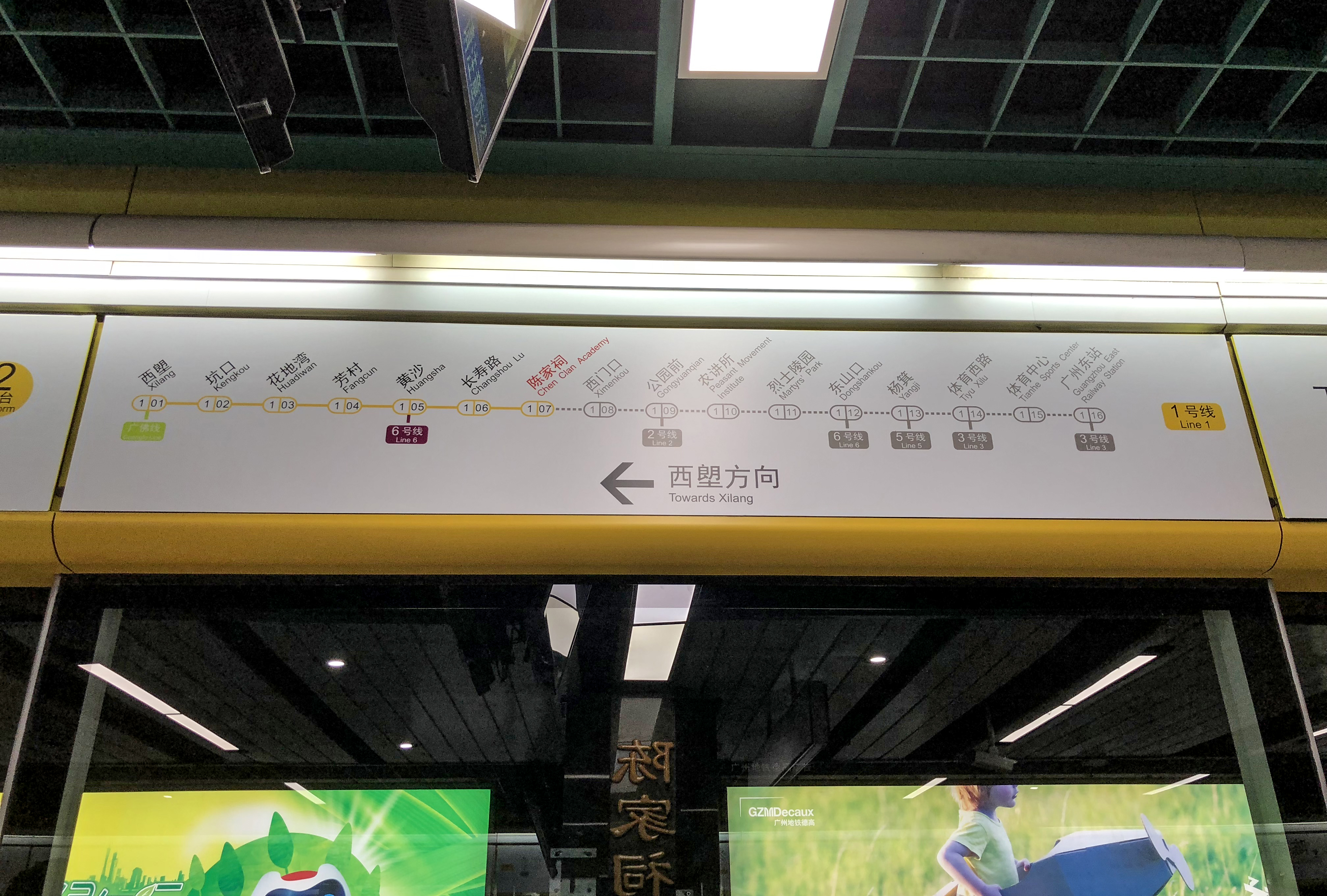 The Chinese form of Xilang has been altered from "西朗" to "西塱".